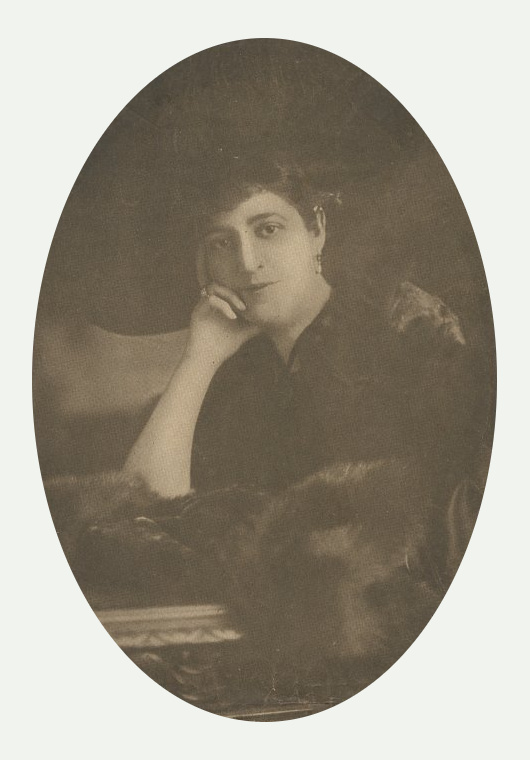 Newspaper clipping of Rida Johnson Young (1875–1926), US playwright, songwriter and librettist